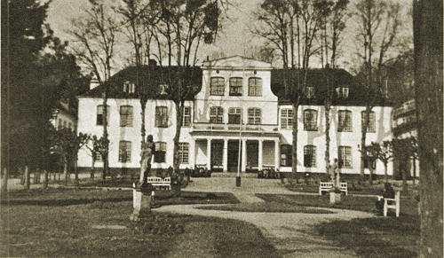 II Manor in Gdańsk-Oliwa (Poland).